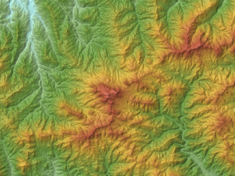 Around Mount Hiko in the bprder of Fukuoka & Oita pefectures, Kyushu, Japan.